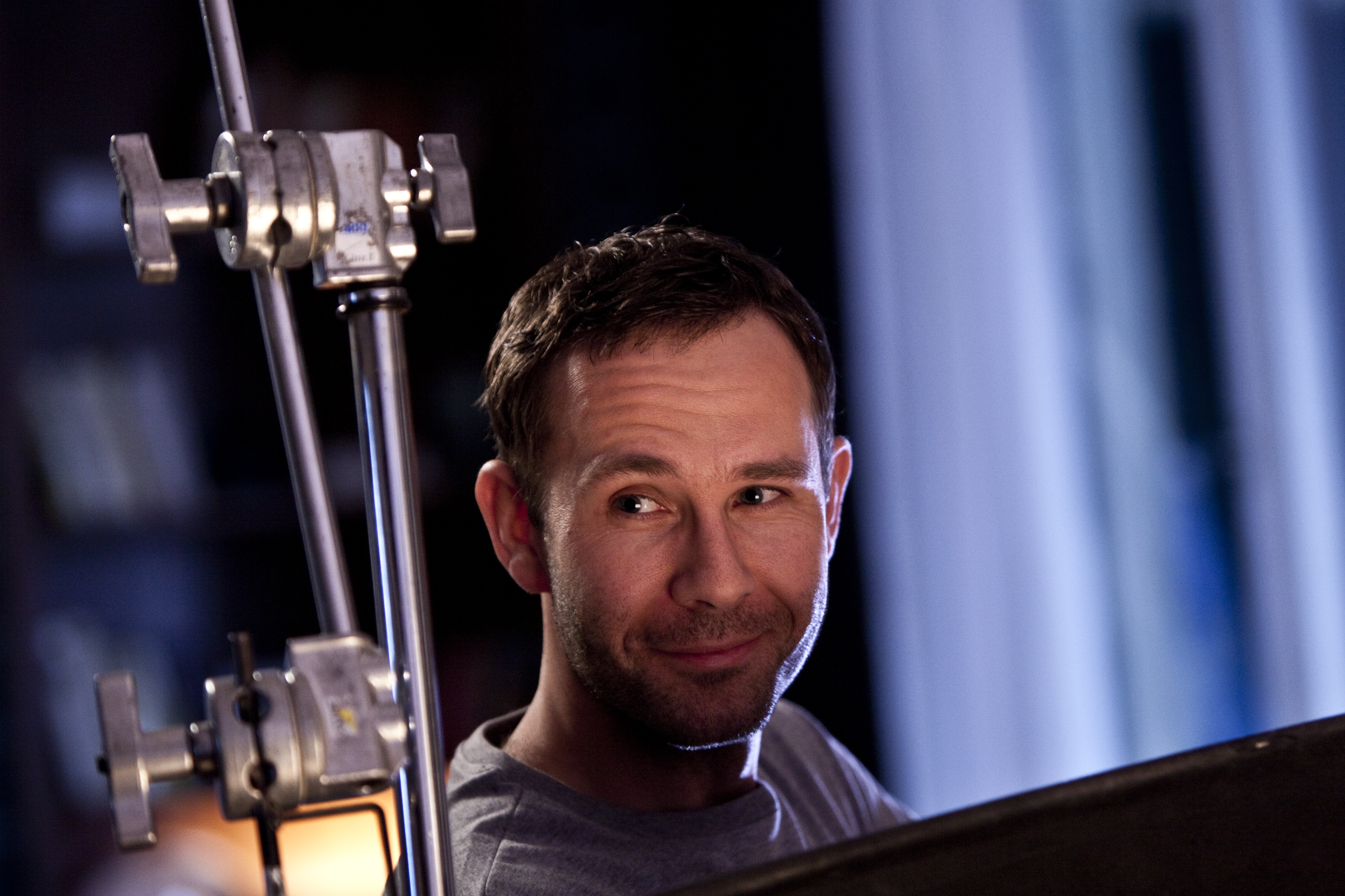 Daniel Šváb 2011